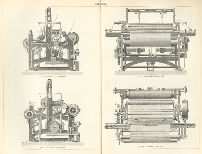 Power looms